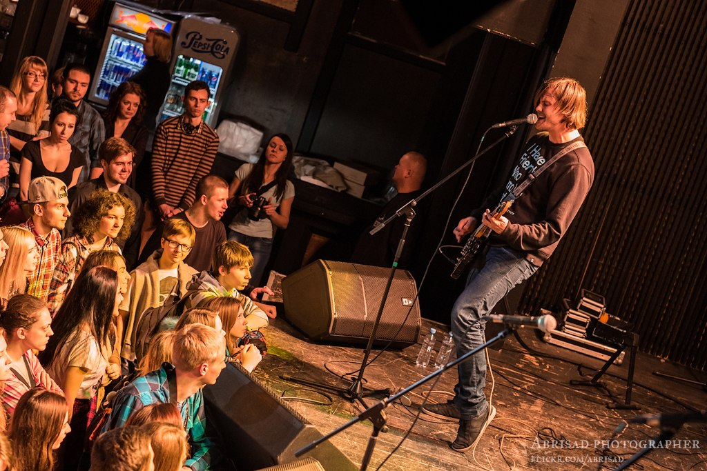 Scroodge concert2